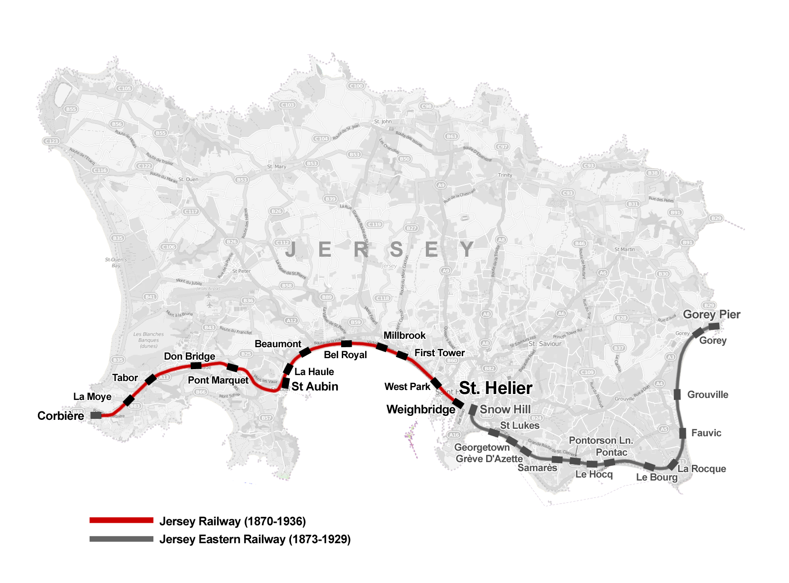 Map of the former railway lines on the Island of Jersey, Channel Islands, with the western Jersey Railway (1870-1936) highlighted